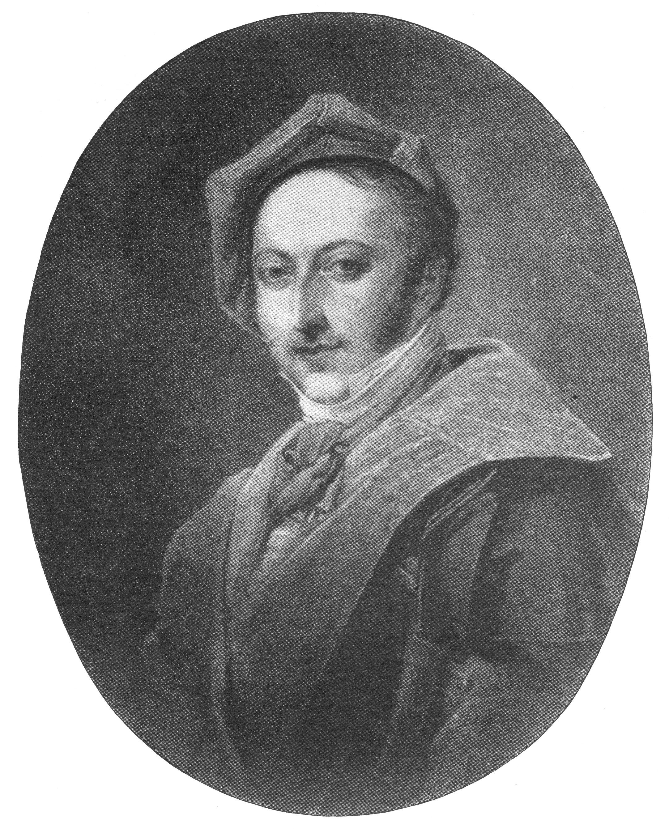 Gioacchino Rossini